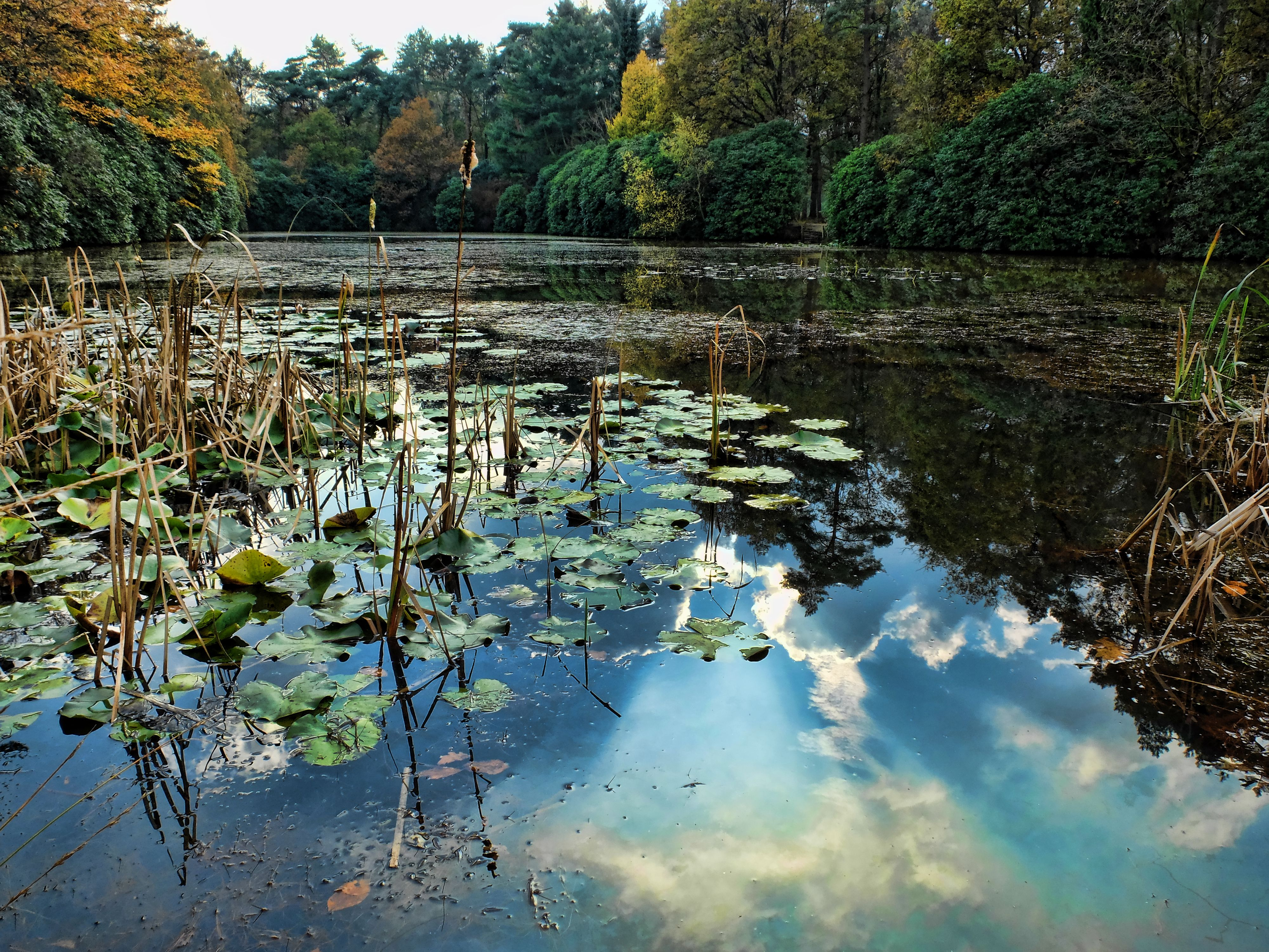 Leaves of water lilies in autumn (location: a pond in Uitlegger in Brasschaat, Belgium)